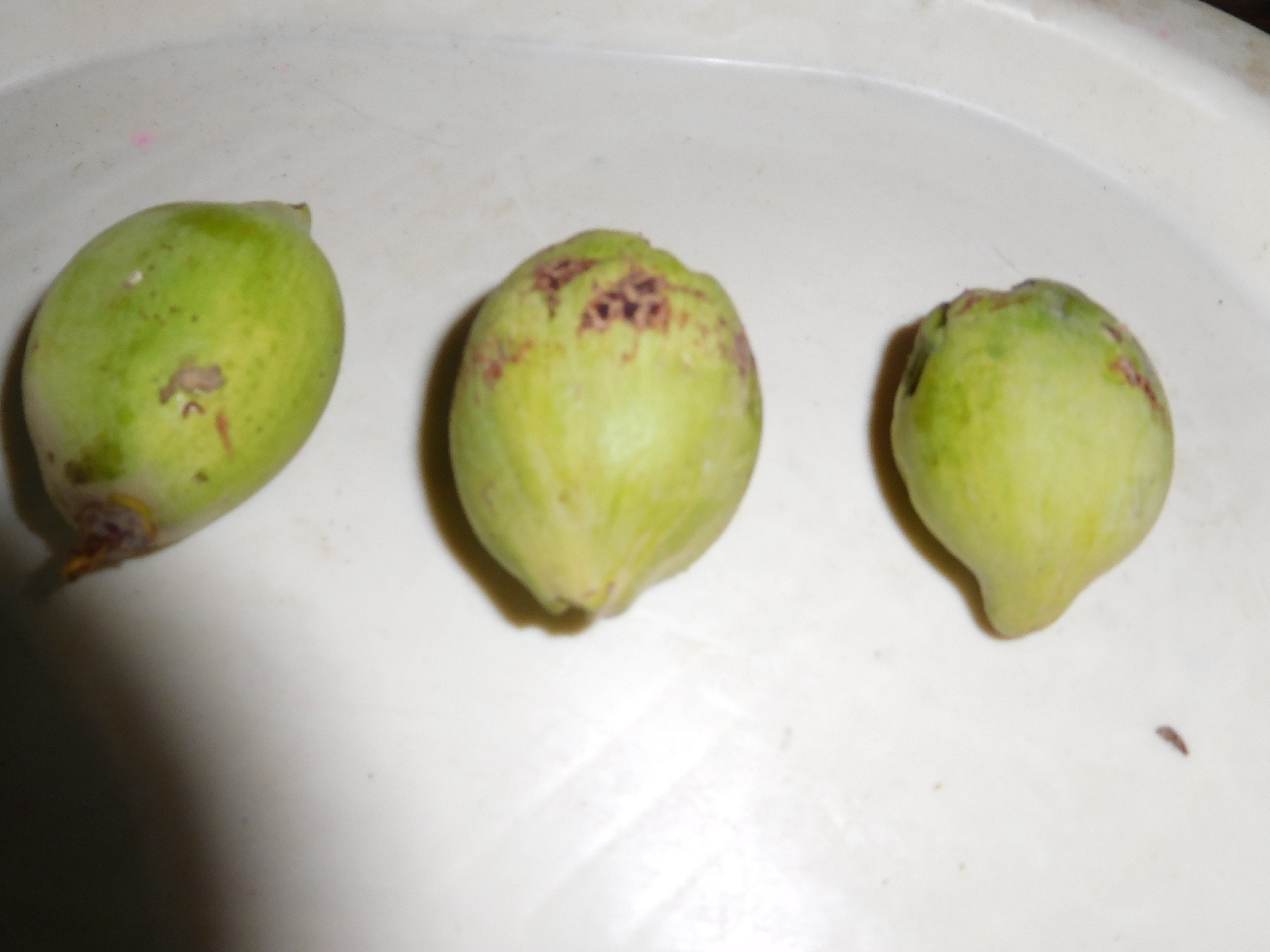 Elloopa Fruits: It is used as vegetable in kitchen only upper part of the fruit.